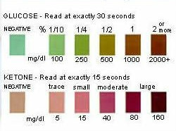 Color chart for reading ketone/urine glucose testing strips for diabetic dogs